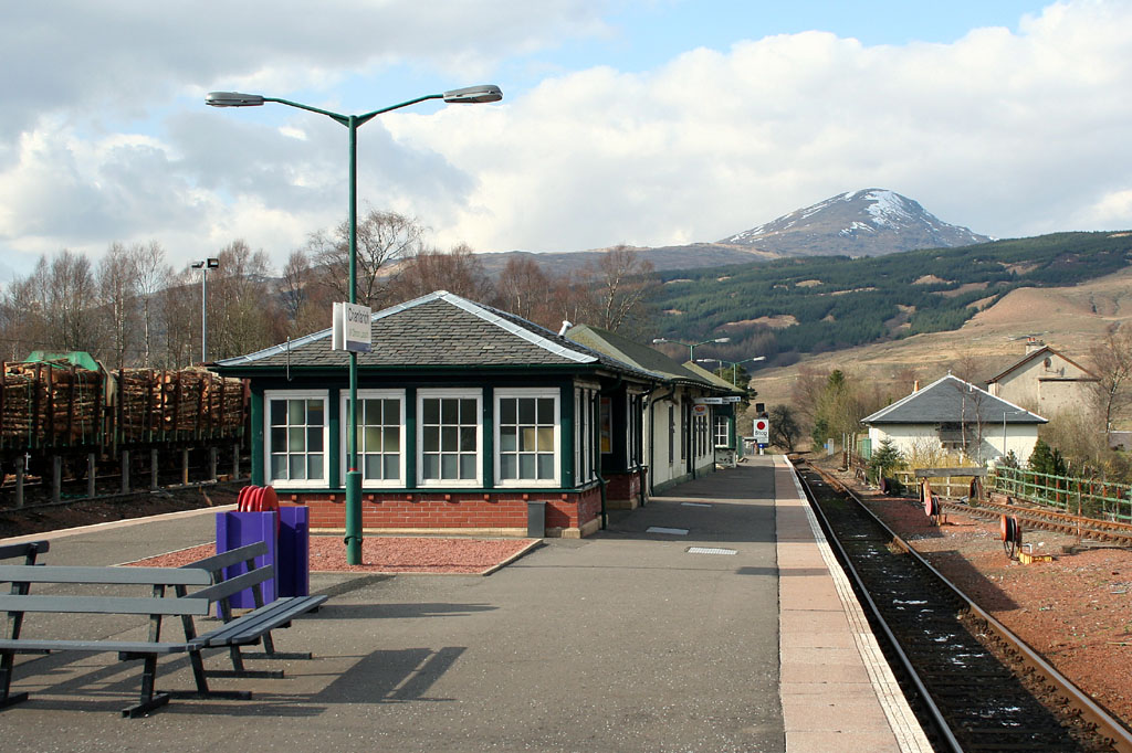 Crianlarich Station from the south. Date:- 21 April 2006 Photographer:- Stewart D. Macfarlane